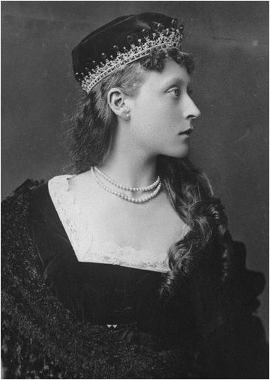 Princess Victoria of Hesse and by Rhine (later Princess Louis of Battenberg Marchioness of Milford Haven)